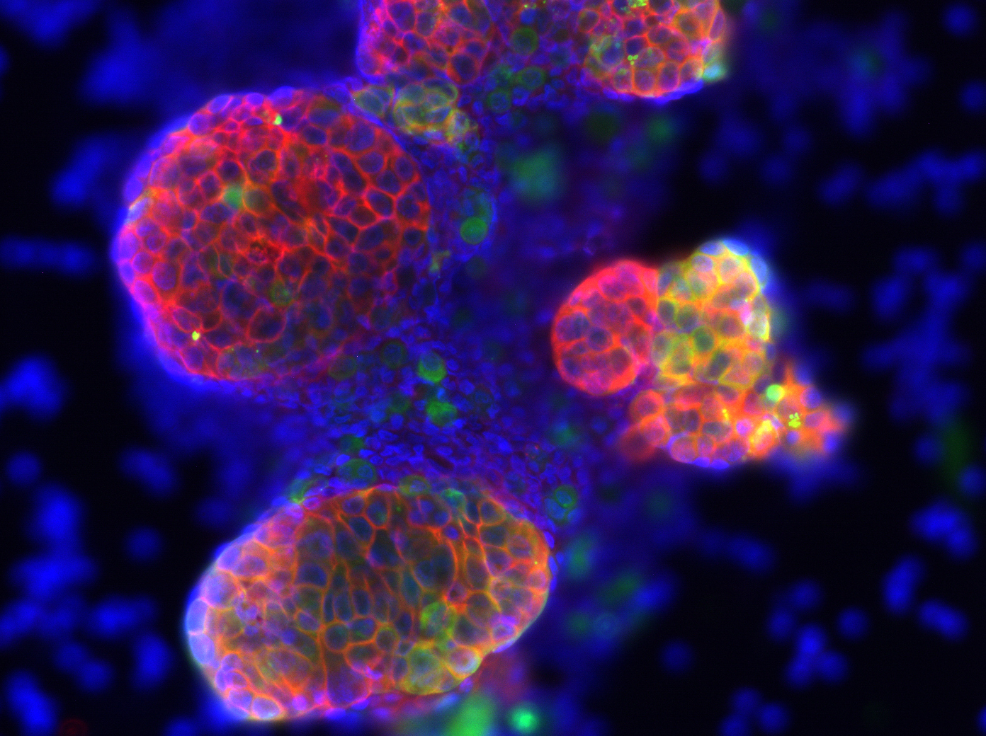 Tumor cell clusters from ascites fluid: nuclei colored in blue, tumor-specific markers colored in red and green